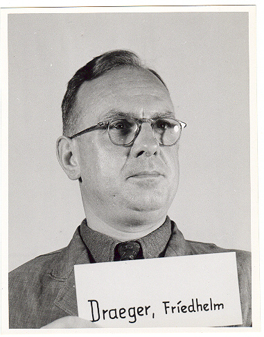 Friedhelm Draeger, leader of the NSDAP Organization in the Northwest of the US in the early 1940s, as a witness during the Nuremberg Trials